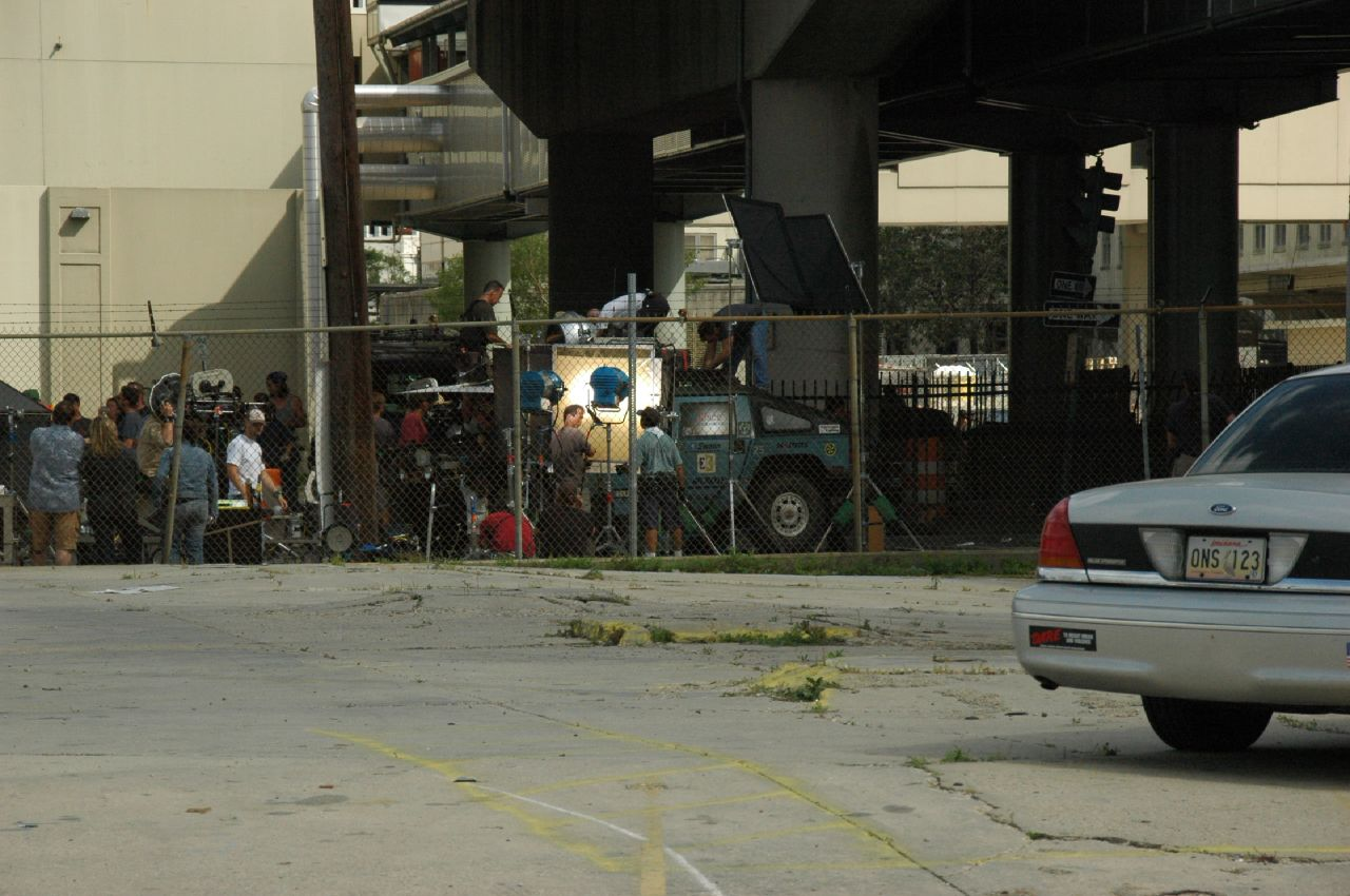 Denzel's been spotted around town...they filmed for a few days near Charity and LSUHSC med school...